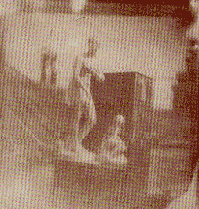 Hippolyte Bayard, "Two Statues Photographed on Rooftops", 1839-1840, direct positive print, Societe' Francaise de Photographie, Paris